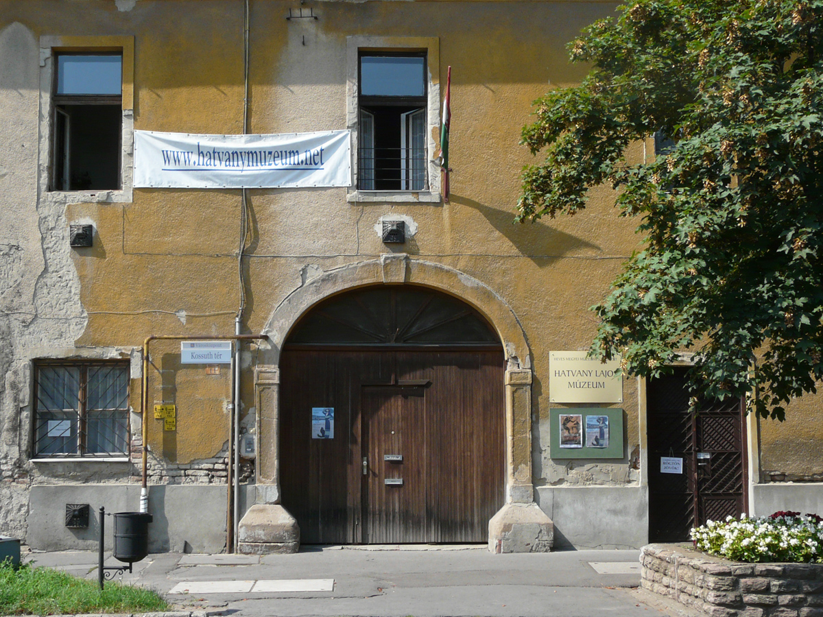 Hatvany Museum (Hungary)